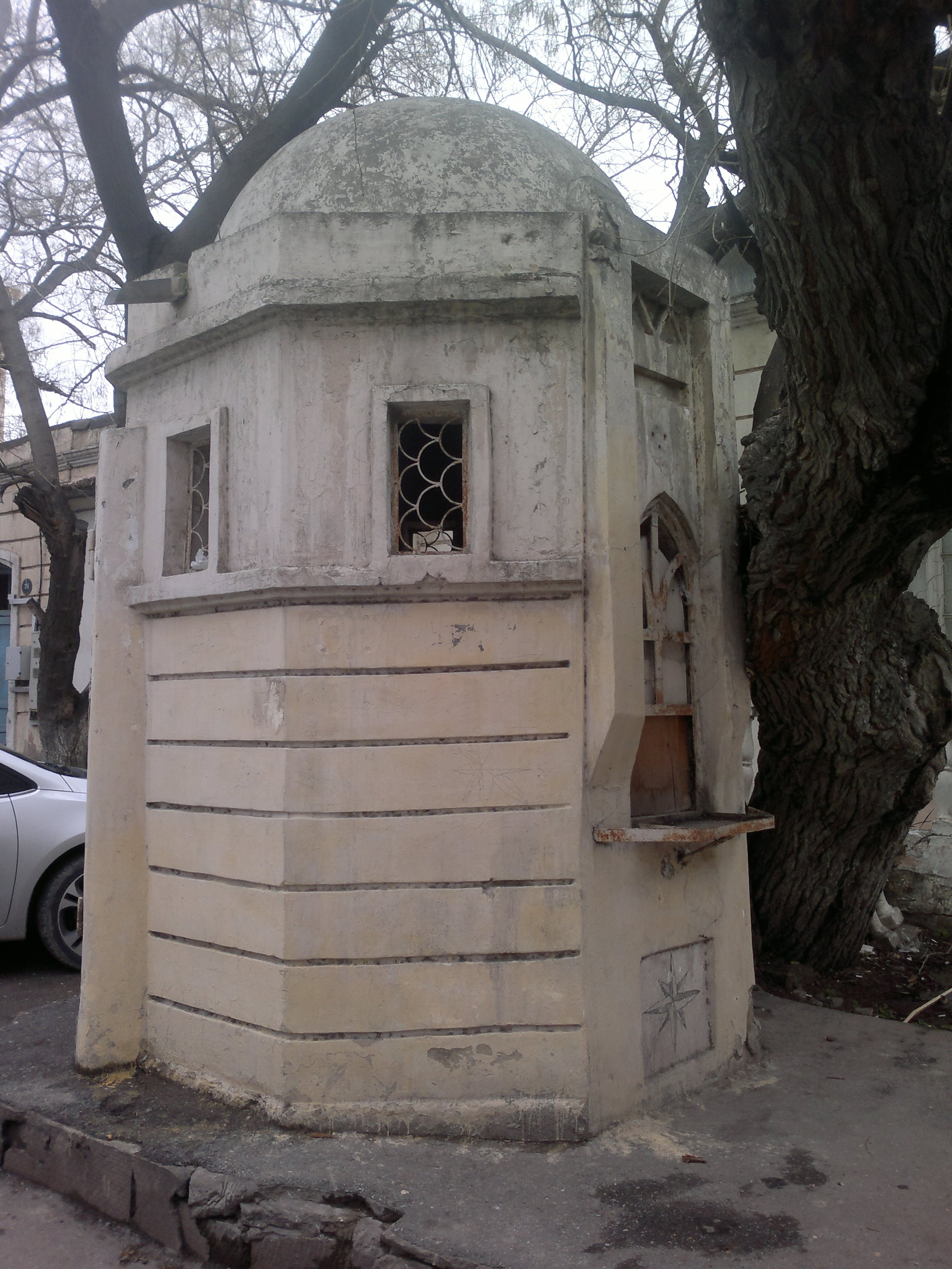 Shollar Water Tower on Shamil Azizbekov Street